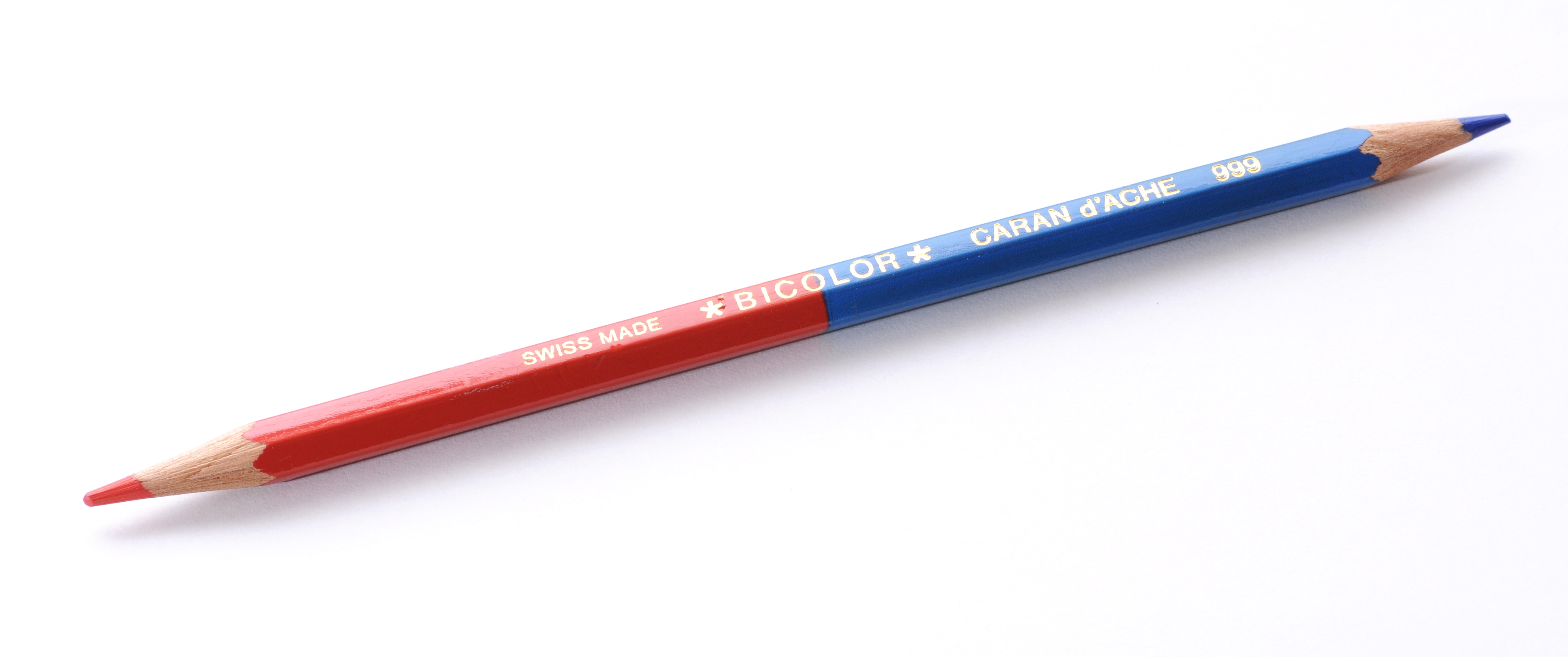 Caran d’Ache BICOLOR: Two-coloured pencil